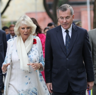 Camilla, Duchess of Cornwall with the headmaster of The Doon School during the India tour, November 2013.